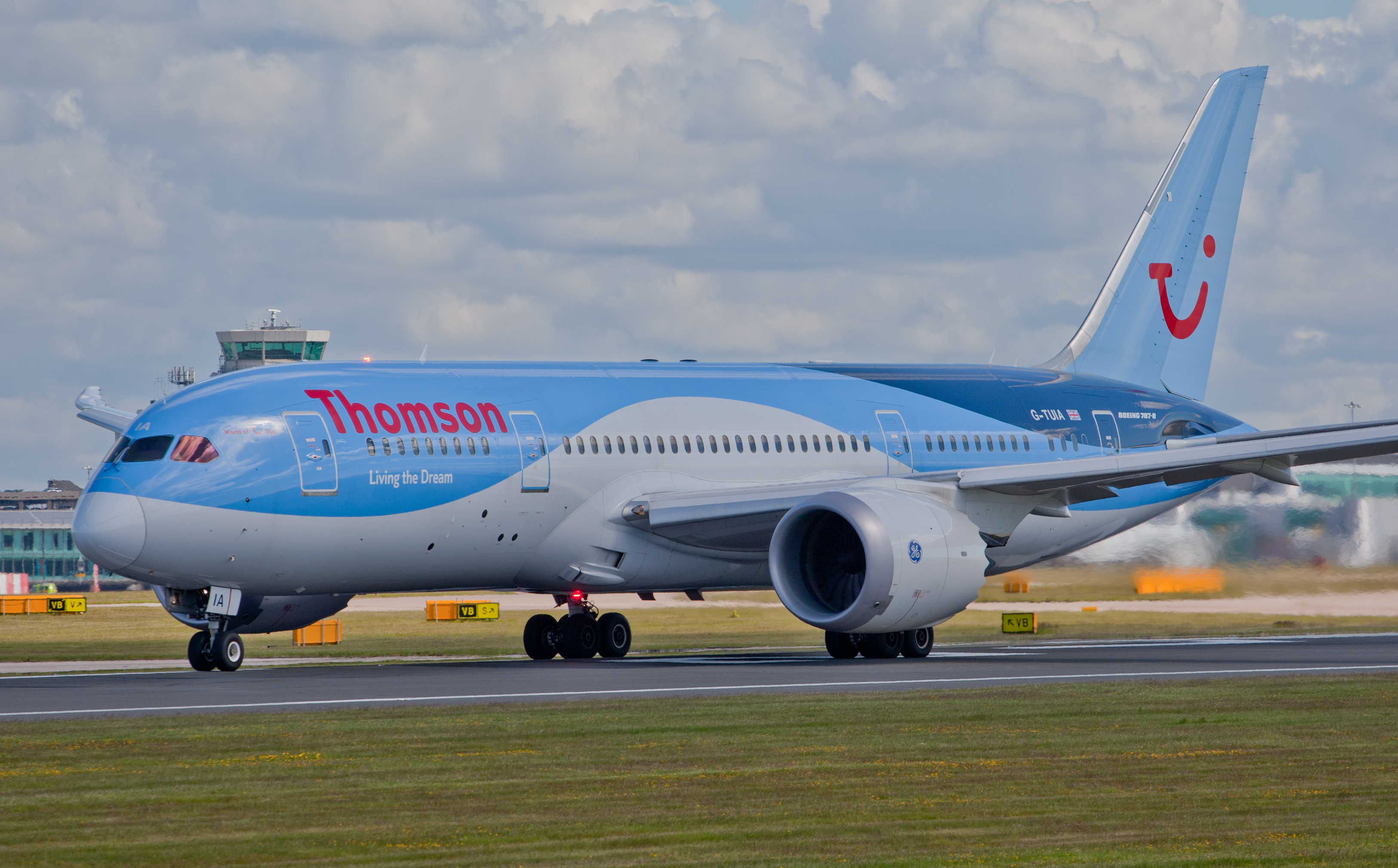 Thomson B787